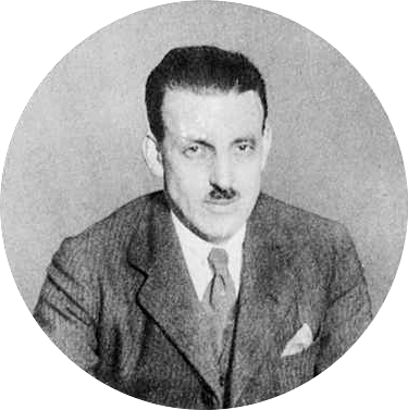 Photograph of Seán Lemass, circa 1932, taken from a Fianna Fáil poster.